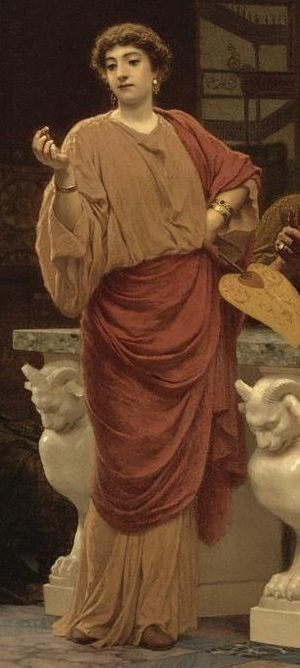 Little Luxury", oil on canvas, 51 x 37.5 cm, private collection